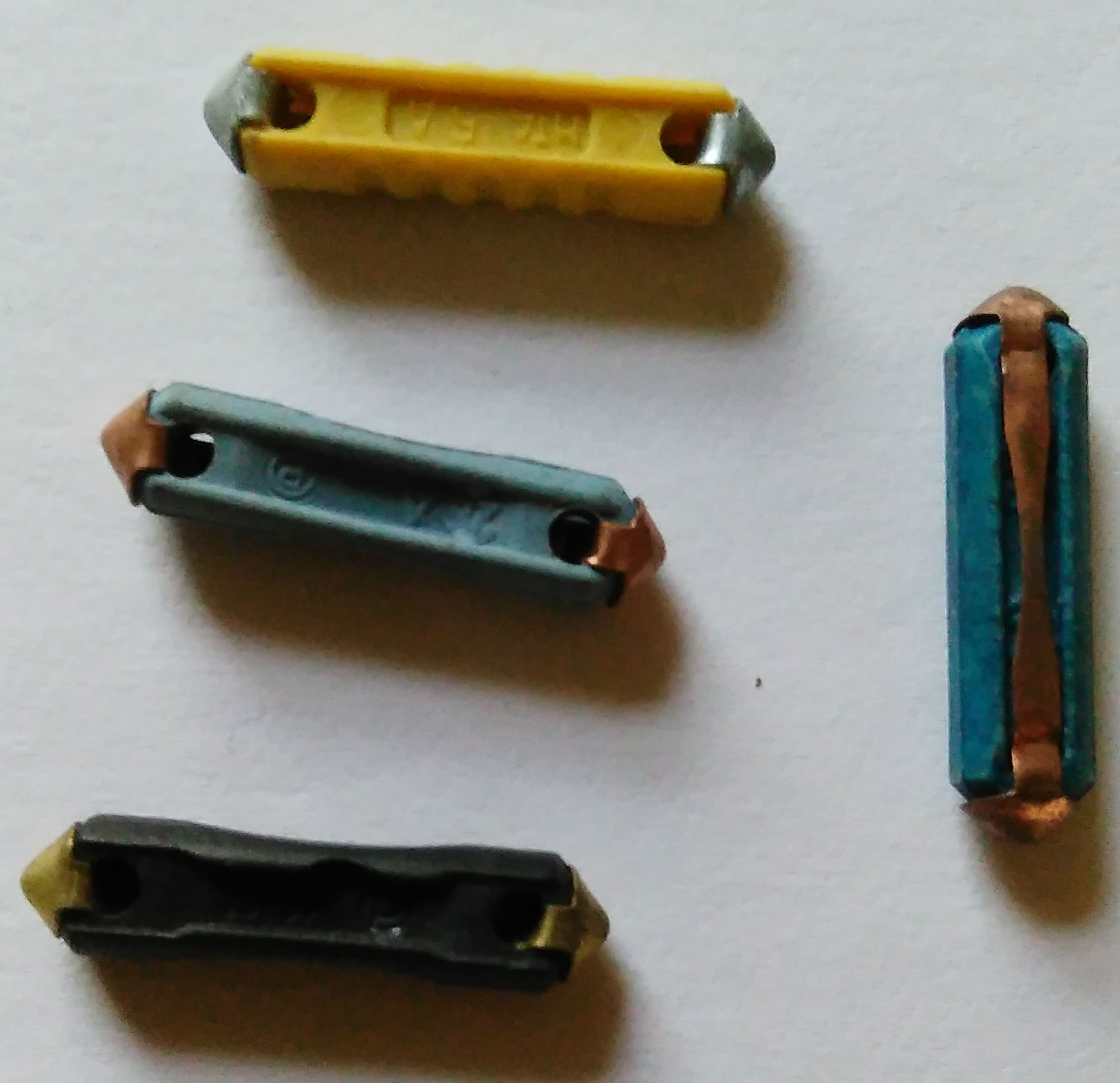 Bosch type fuses.